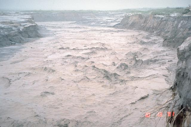 A lahar, or volcanic mudflow, fills the banks of the Pasig-Potrero River on the east side of Pinatubo volcano in the Philippines on October 13, 1991. The lahar moved at a velocity of 3-5 m/sec, and carried a few meter-sized boulders. This lahar was not directly produced by an eruption, but was triggered by minor rainfall, which remobilized thick deposits of ash and pumice that blanketed the landscape. Devastating mudflows occurred at Pinatubo for years after the catastrophic 1991 eruption.